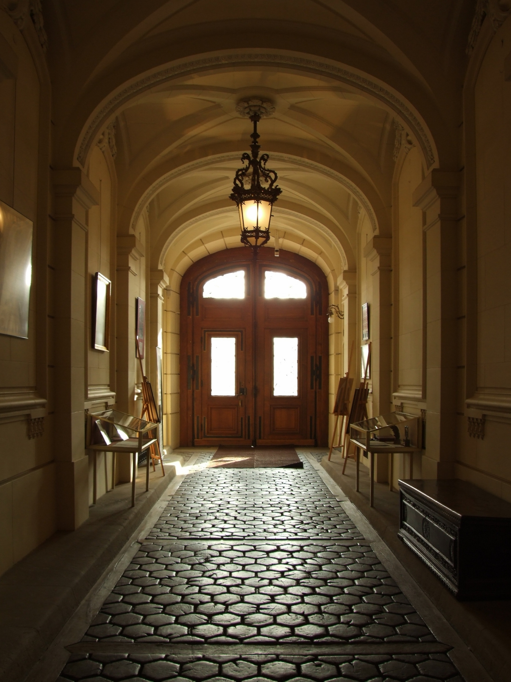 Pszczyna (Pless) Palace - the Entrance Hall